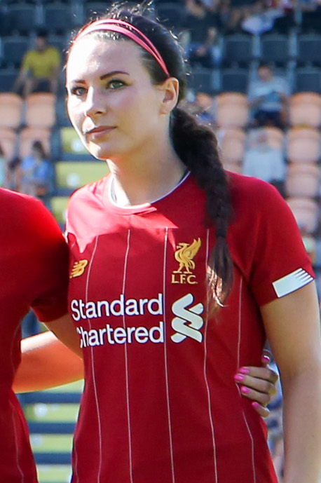 2019–20 FA WSL: Tottenham Hotspur FC Women v Liverpool FC Women, 15 September 2019 – Liverpool starting line-up.